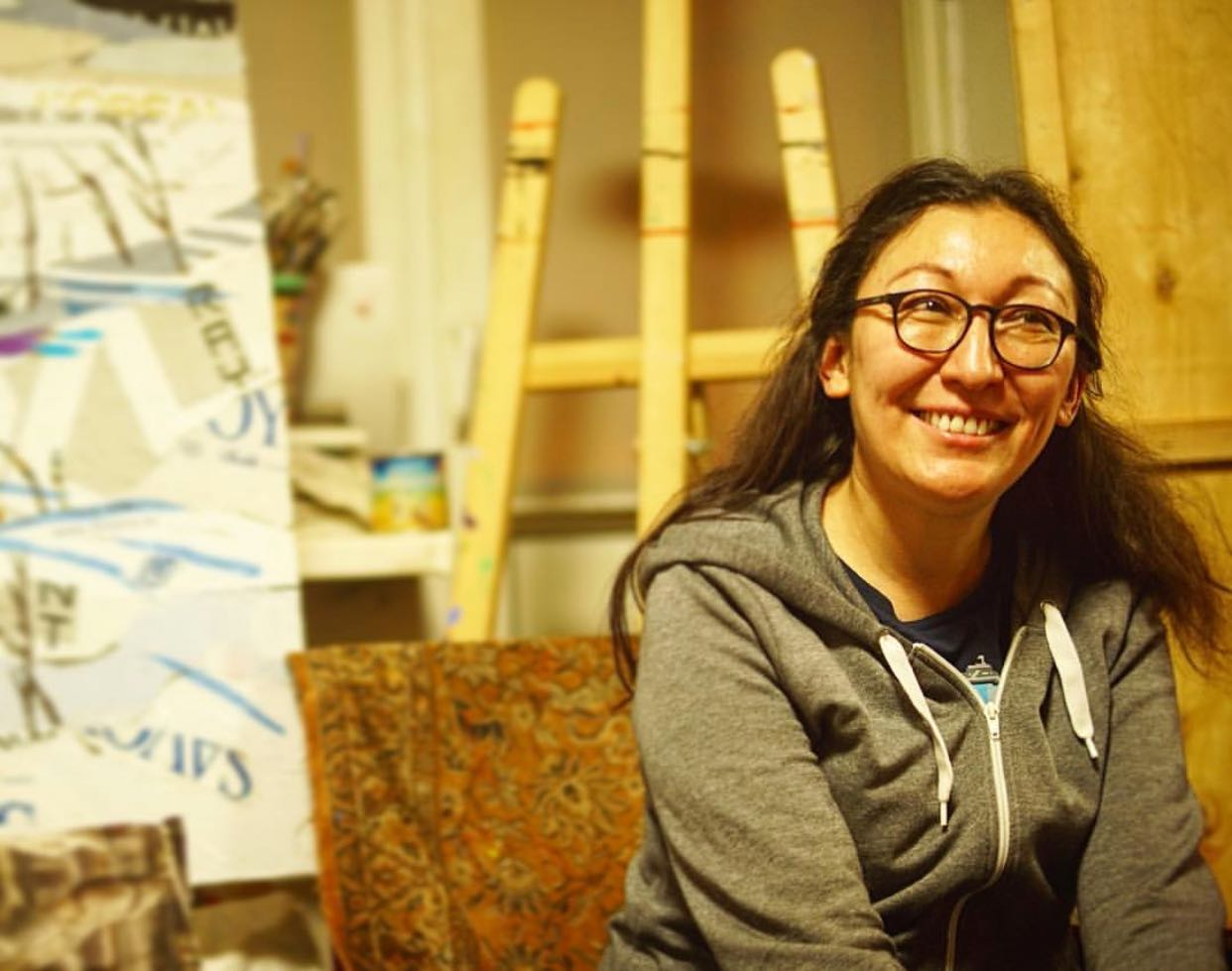 Saule Suleimenova in her studio, 2016